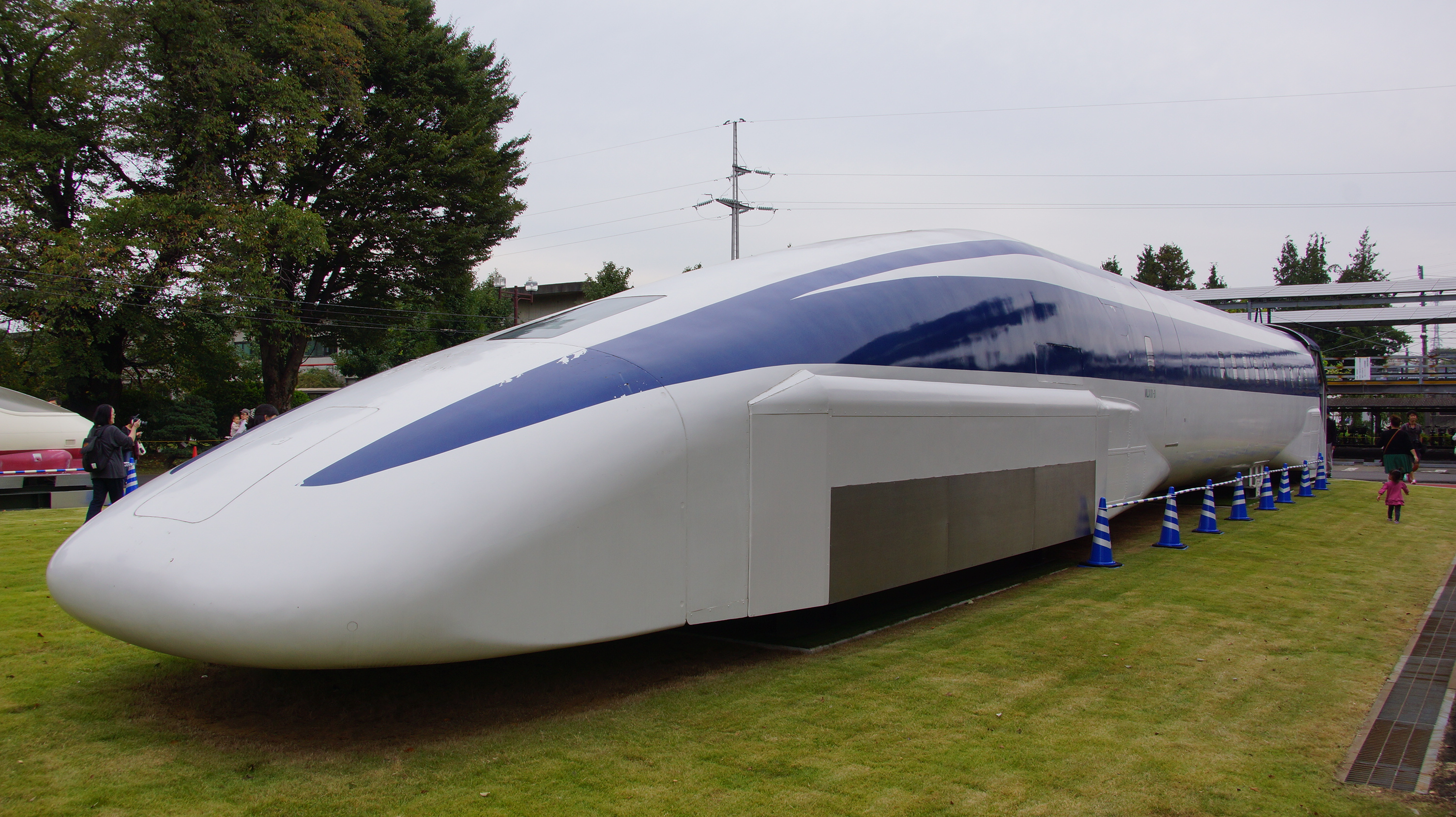 Experimental maglev car MLX01-03 preserved at the RTRI facility in Kokubunji, Tokyo